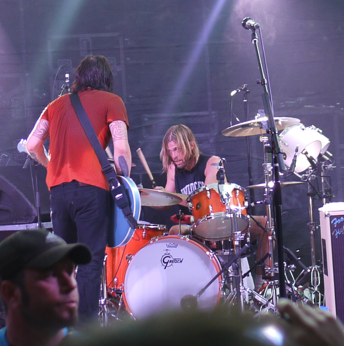 Dave Grohl and Taylor Hawkins of the Foo Fighters on the SXSW festival in Austin, TX.